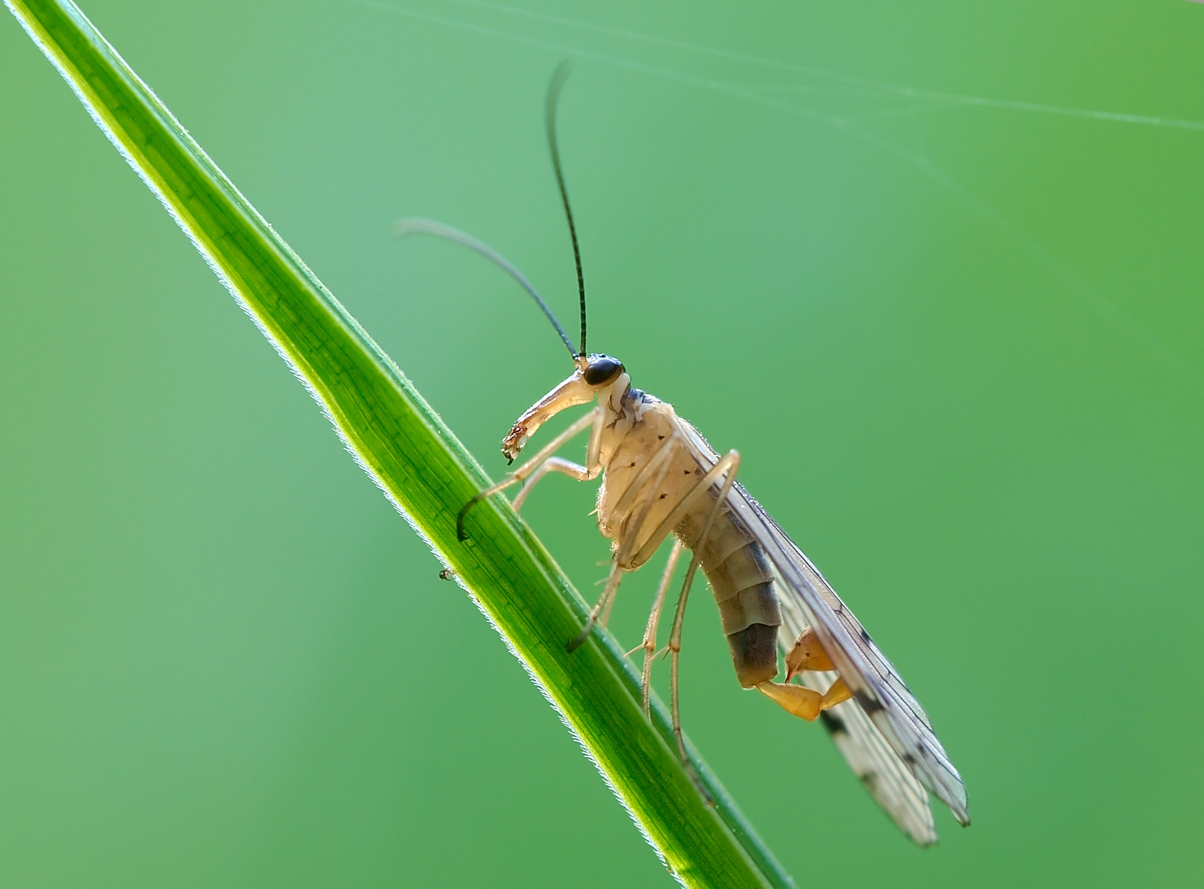 Panorpa (Aulops) alpina (male), a scorpionfly.